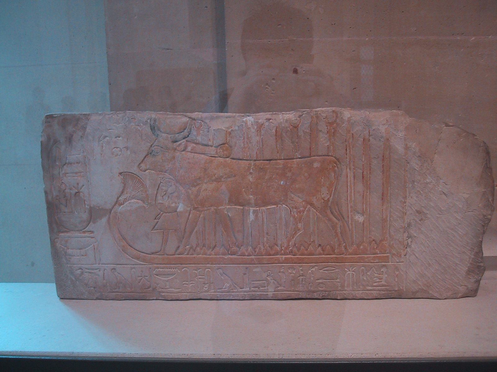 King Rameses II under the protection of the cow-deity Hathor. Limestone, 1279–1213 BC (19th Dynasty), found in Deir el-Medinah.